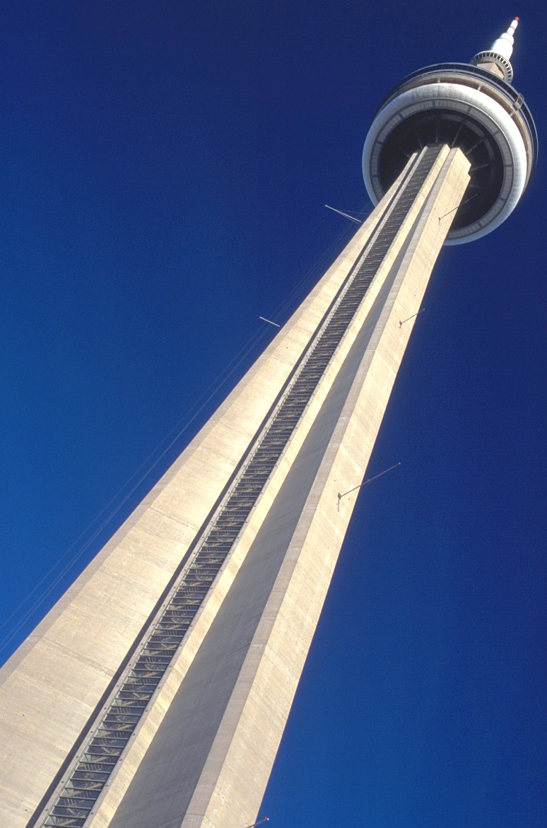 CN Tower (1,815 ft) in Toronto, Canada